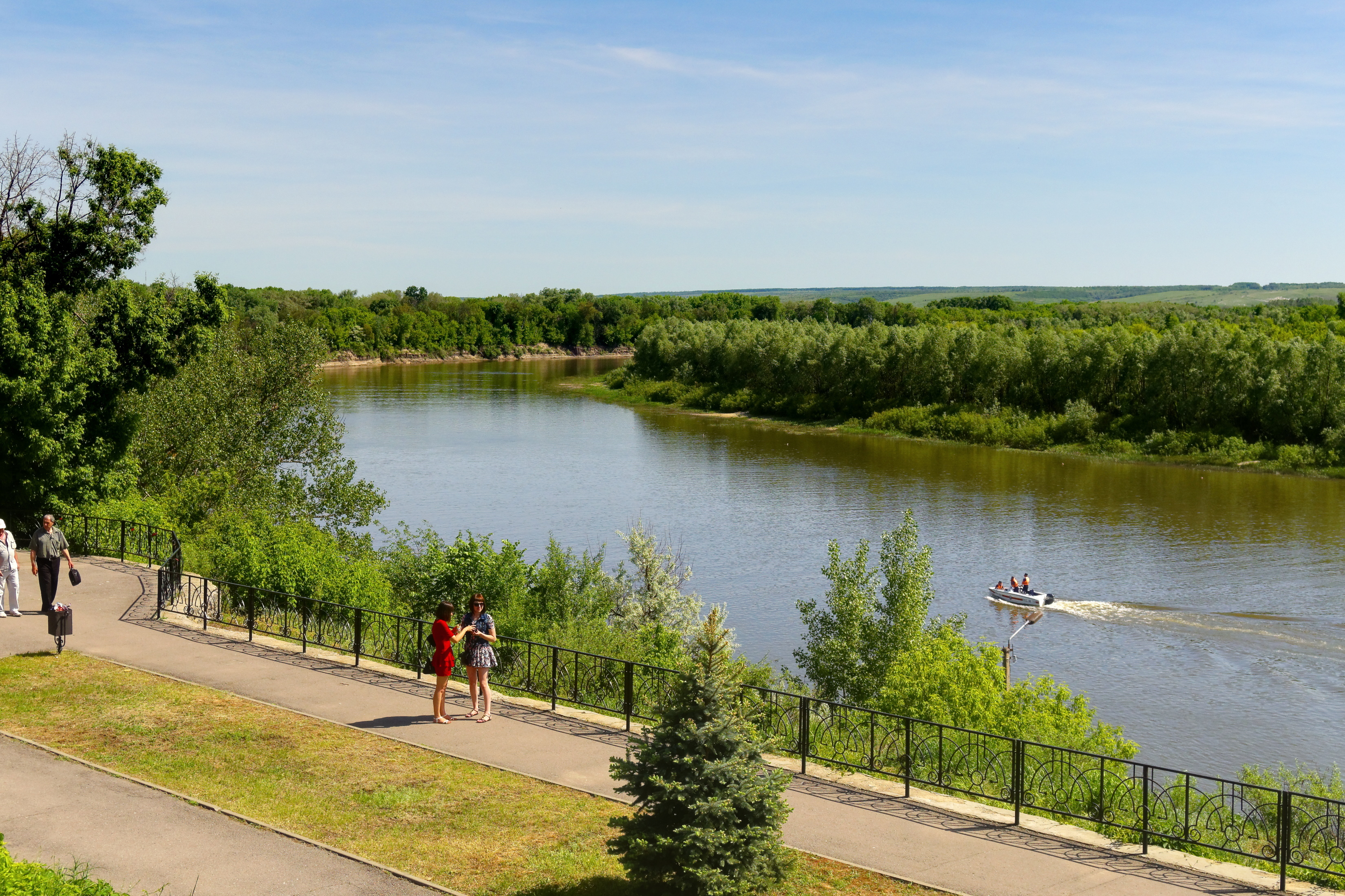 Vyoshenskaya. Don River, embankment